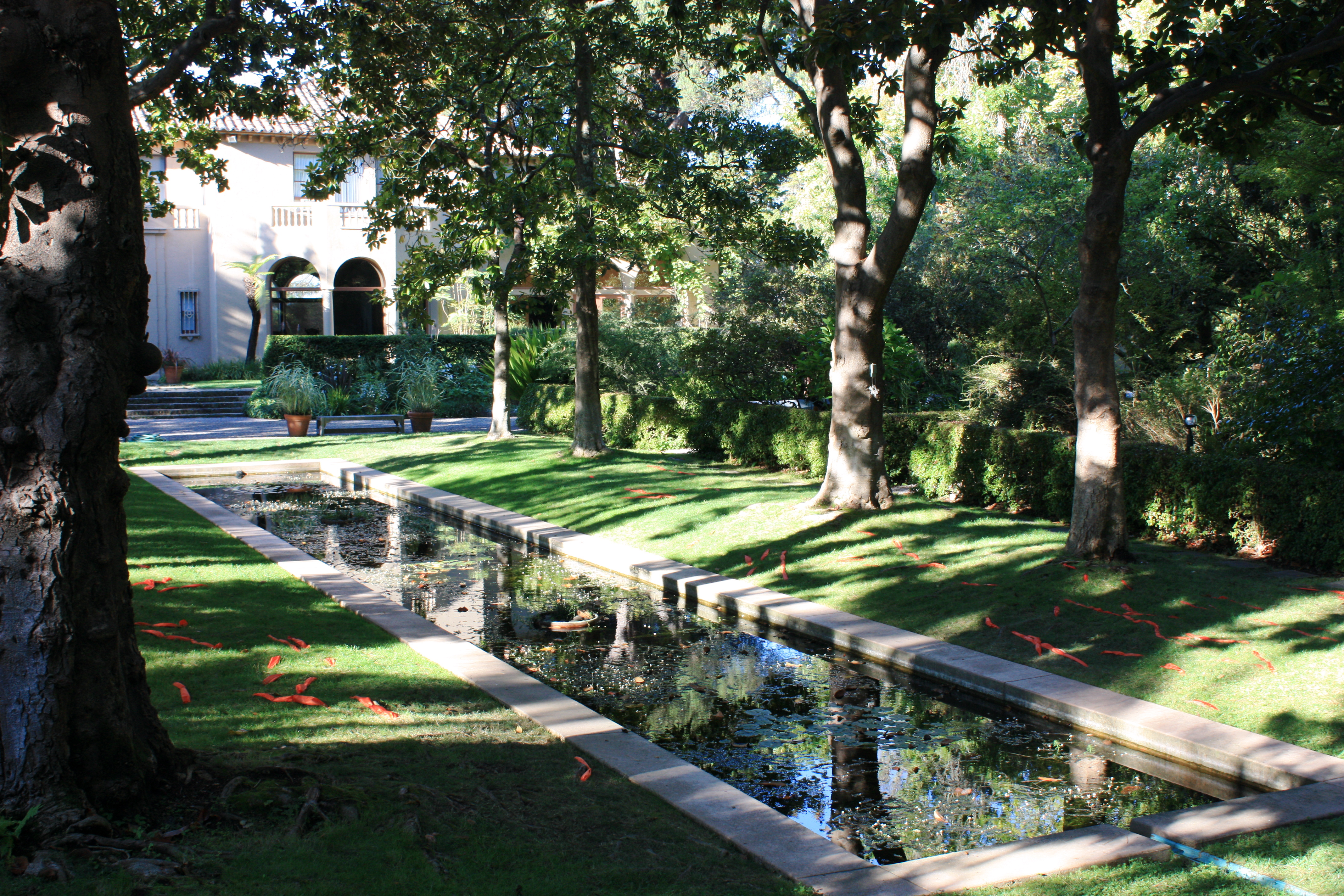 Koi fish pond, Blake Garden, Kensington - northern California